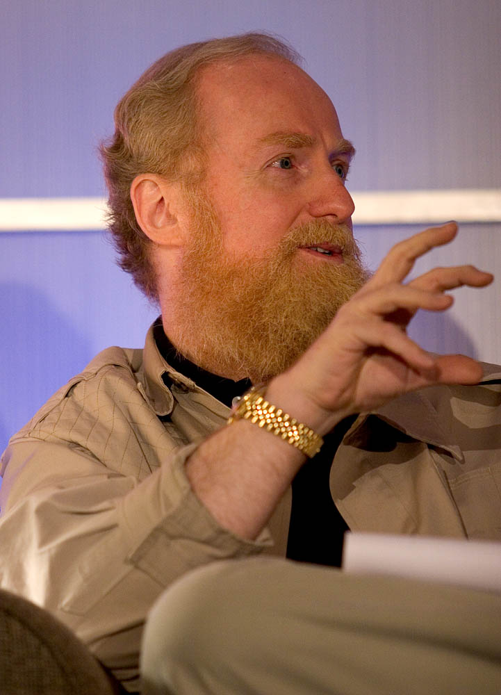 Bran Ferren This photograph was taken during the 2005 O'Reilly Emerging Technology Conference in San Diego, California at the Westin Horton Plaza Hotel.